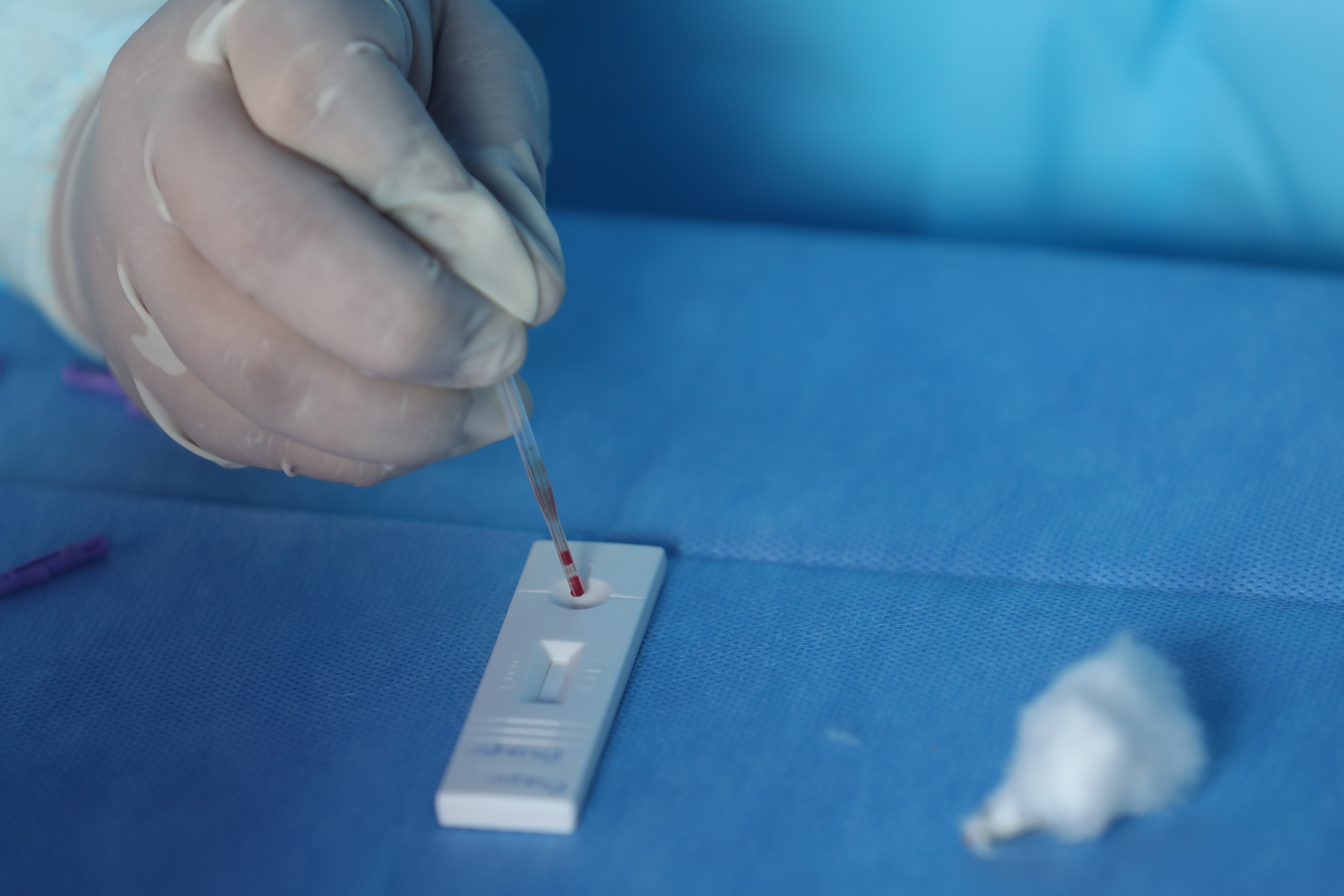 MINISTRO DE DEFENSA SUPERVISÓ TOMA DE PRUEBAS DE COVID-19 A COMERCIANTES DEL MERCADO CAQUETÁ